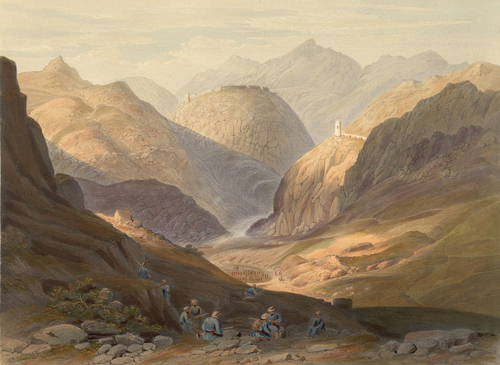 "Fortress of Alimusjid, and the Khybur Pass," a lithograph by James Rattray, 1848* (BL)